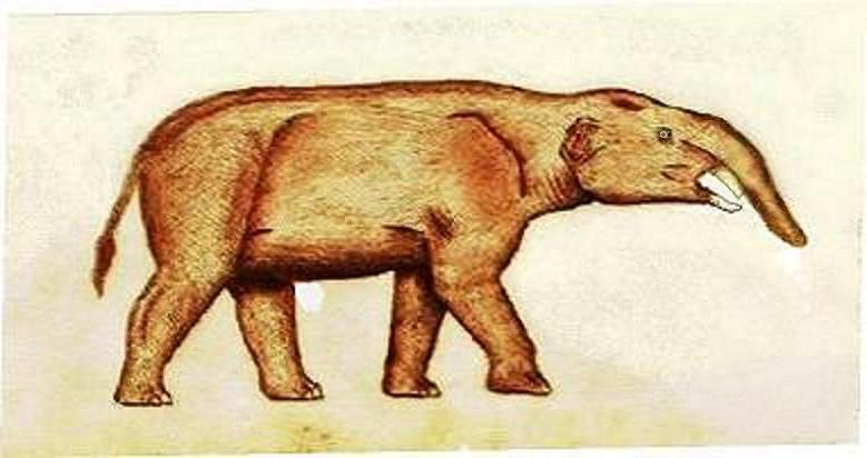 own work